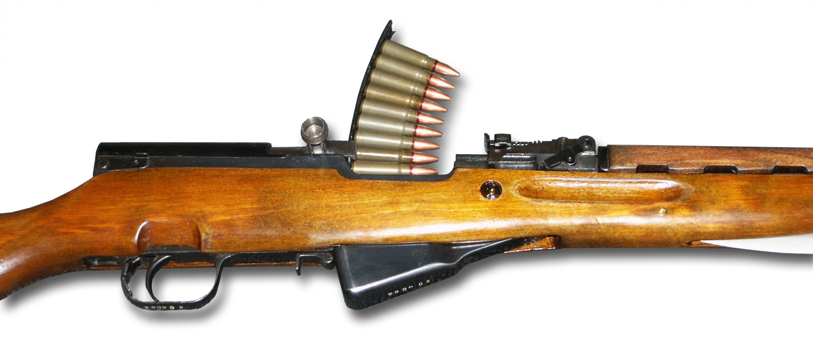 DCF 1.0